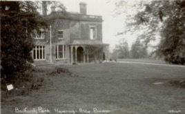 Taken in the post-World War 2 years.